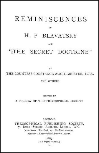 Countess Wachtmeister's Book Reminiscences of H. P. Blavatsky and The Secret Doctrine. Title page of 1893 edition.